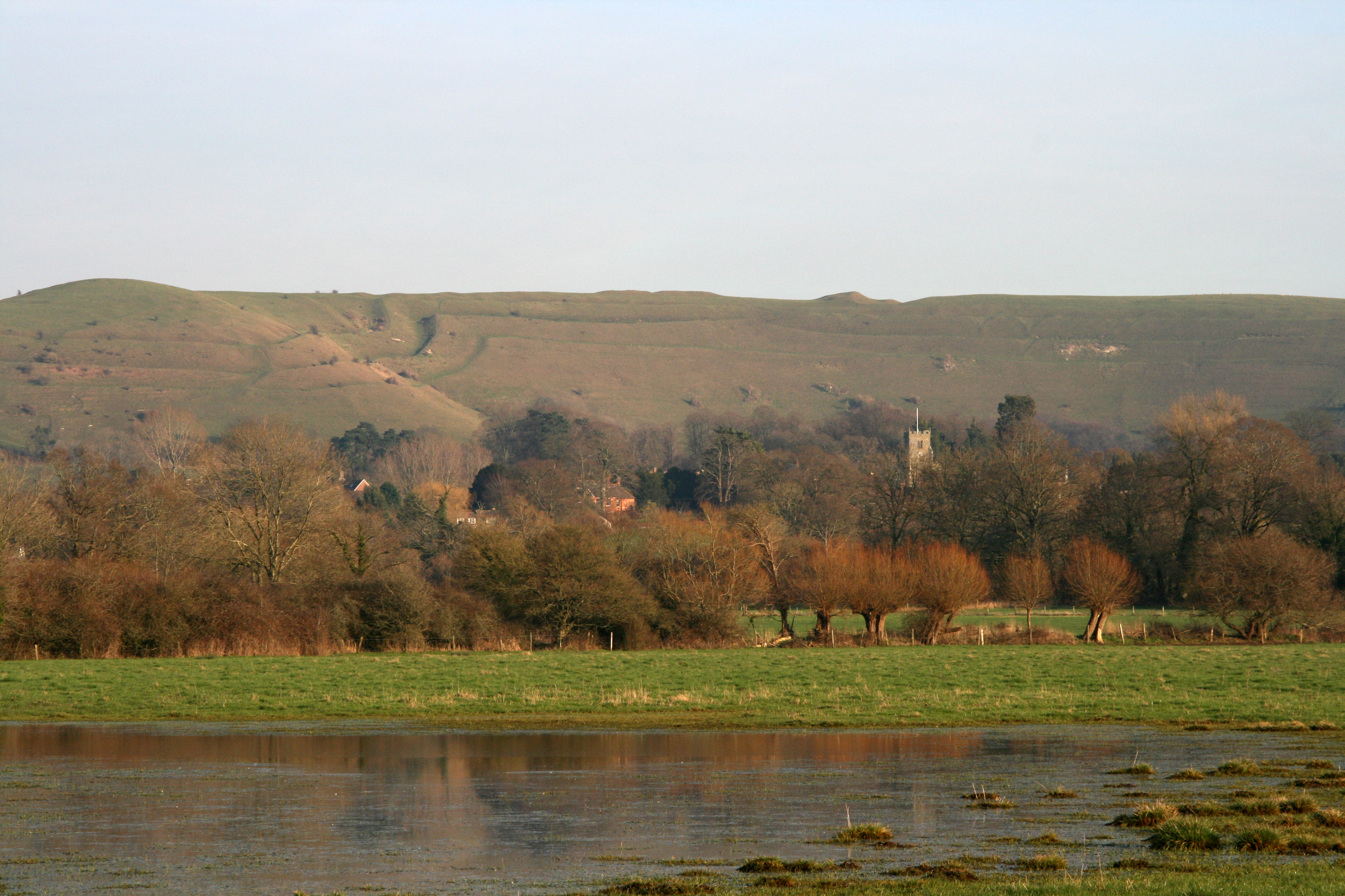 Across the water meadows looking towards Child Okeford and Hambledon Hill, Dorset, England, UK.